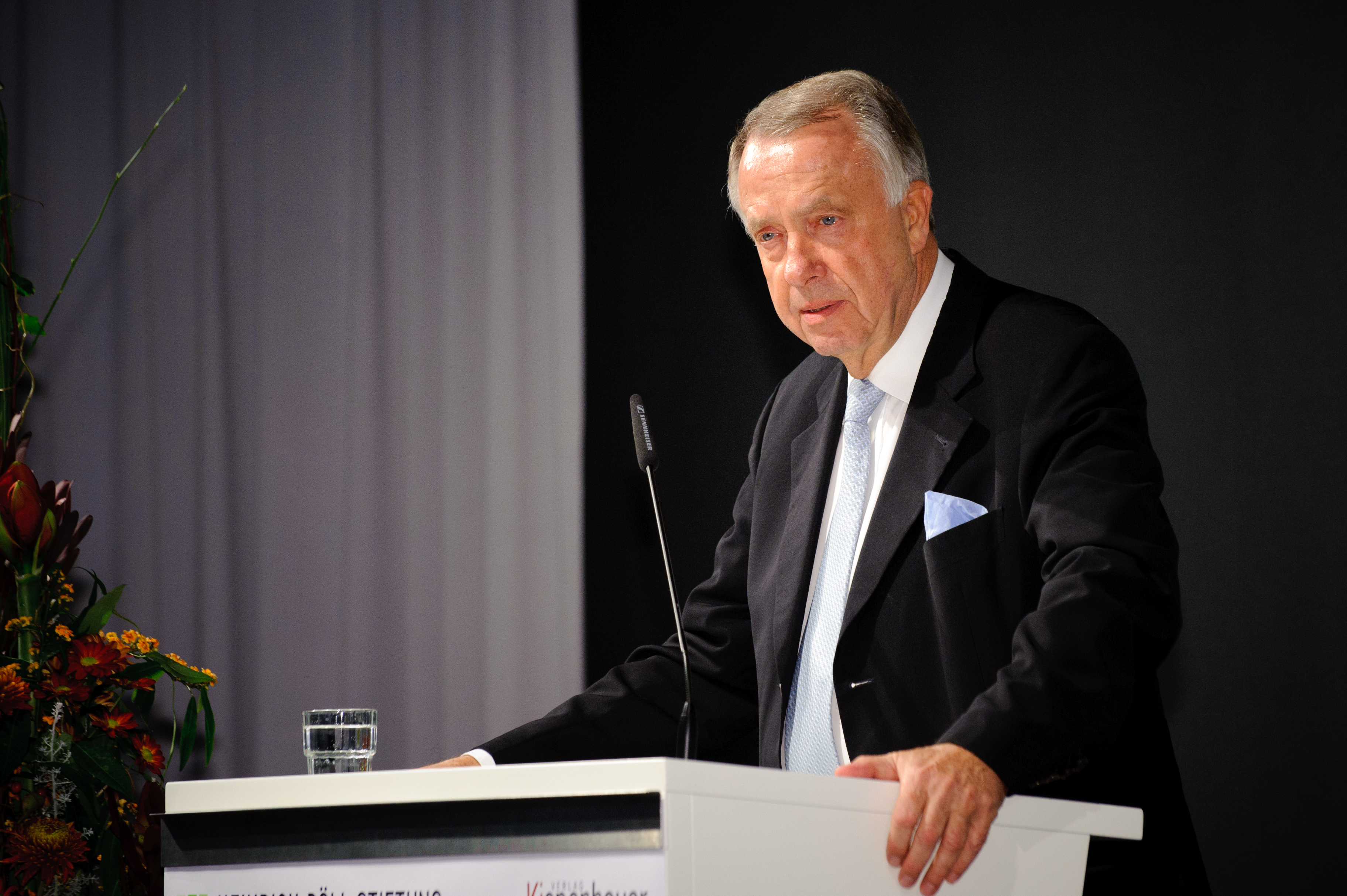 Foto: Stephan Röhl